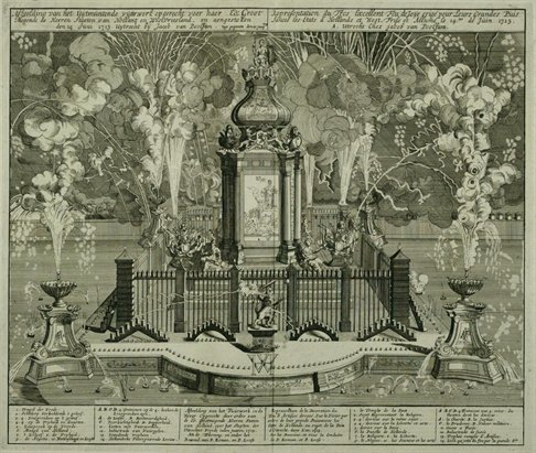 Fireworks in The Hague to celebrate the 'Peace of Utrecht' of 1713